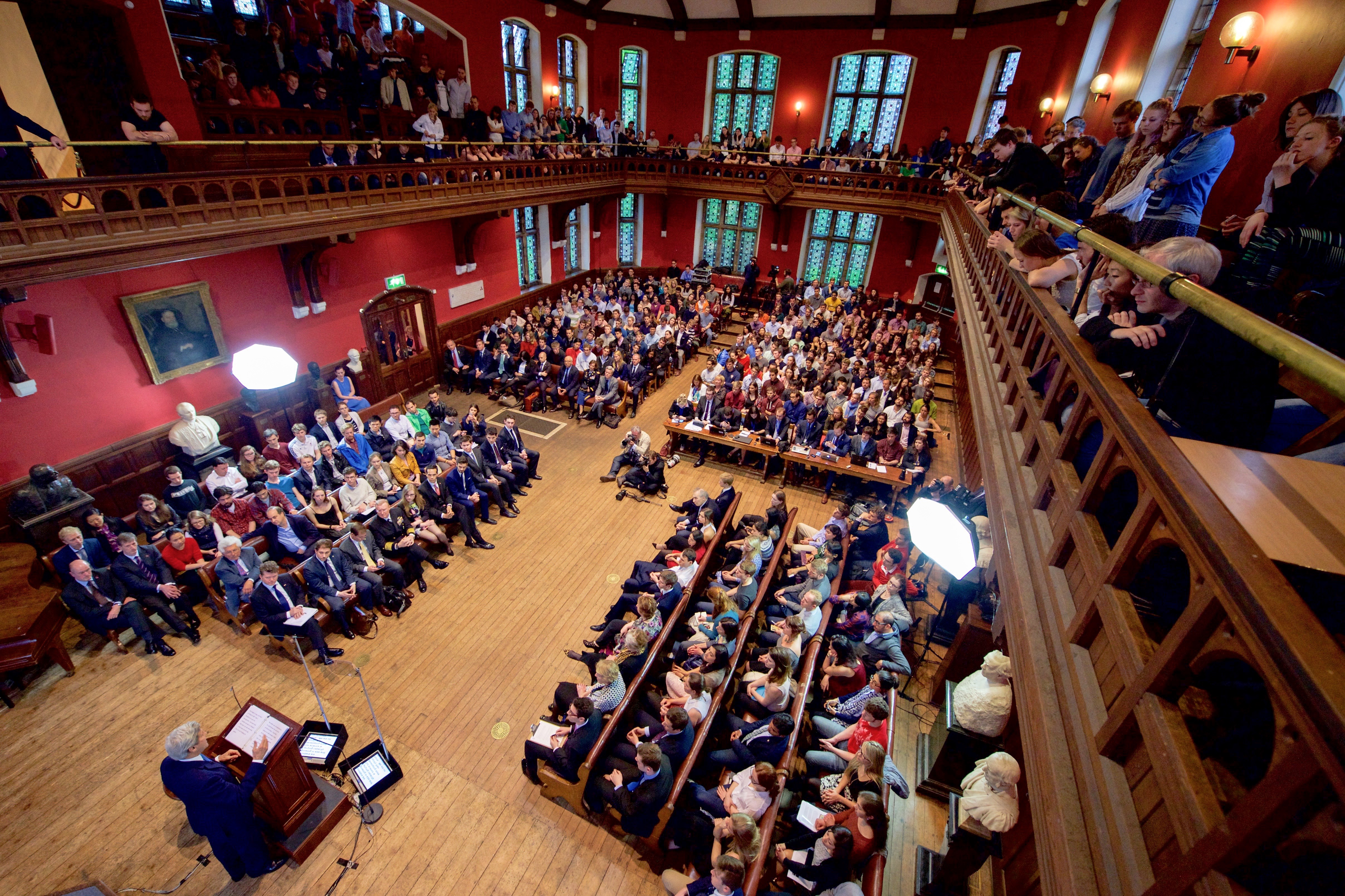 U.S Secretary of State John Kerry stands in the Debating Chamber at the Oxford Union in Oxford, U.K., on May 11, 2016, as he delivers an address to the Union membership. [State Department photo/ Public Domain]